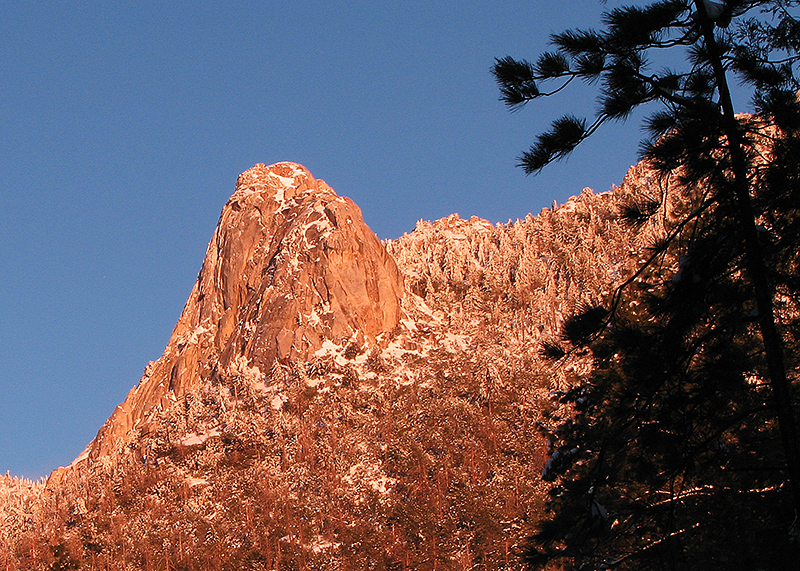 Tahquitz, or Lily Rock, at sunset — as seen from Idyllwild on Mount San Jacinto, Riverside County, California.